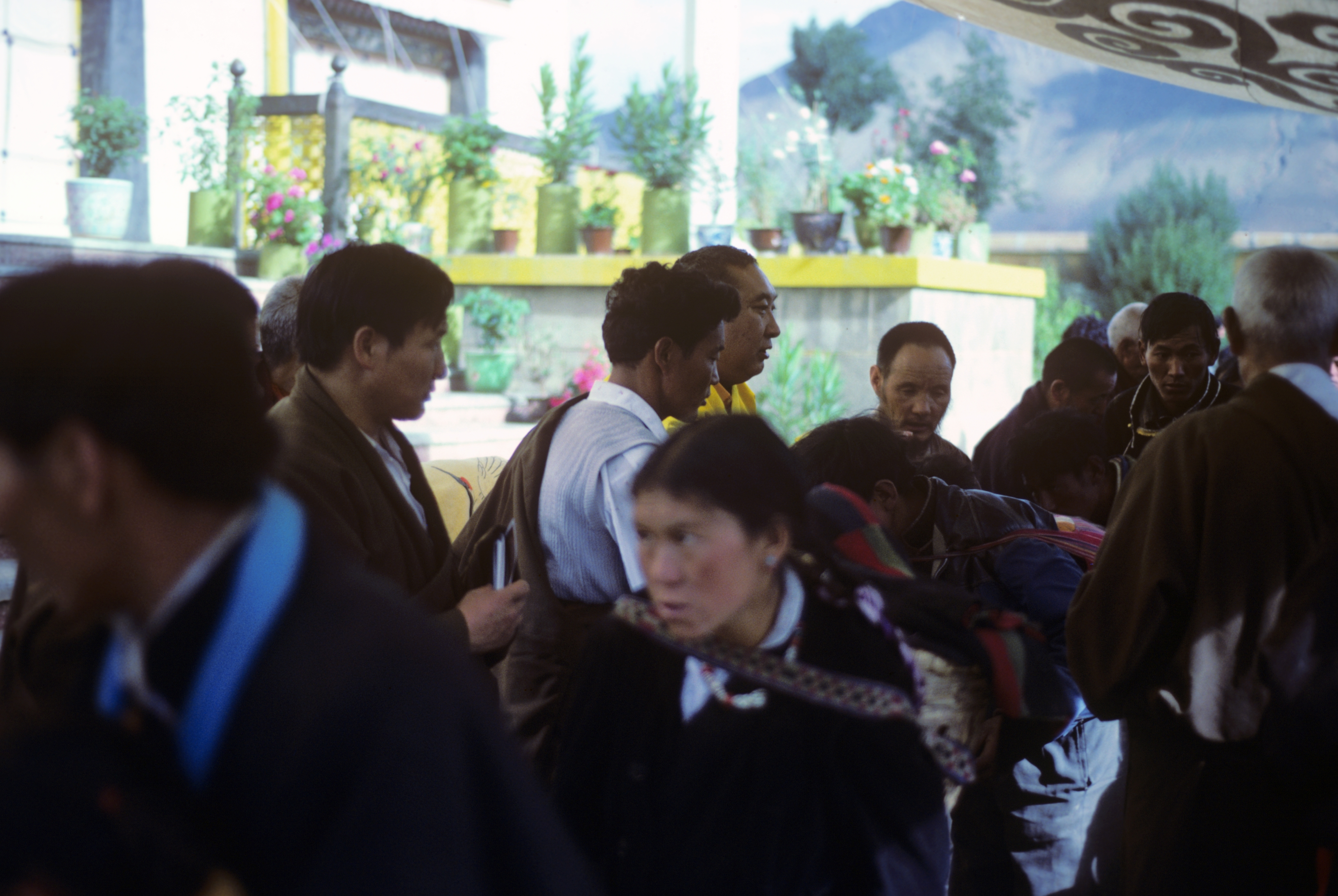 Early August 1987, The Panchen Lama was visiting Tibet, thousands of Tibetans walked for days to line up and receive a touch on the head as a blessing from the Panchen Lama